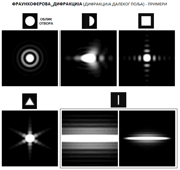 ФРАУНХОФЕРОВА ДИФРАКЦИЈА